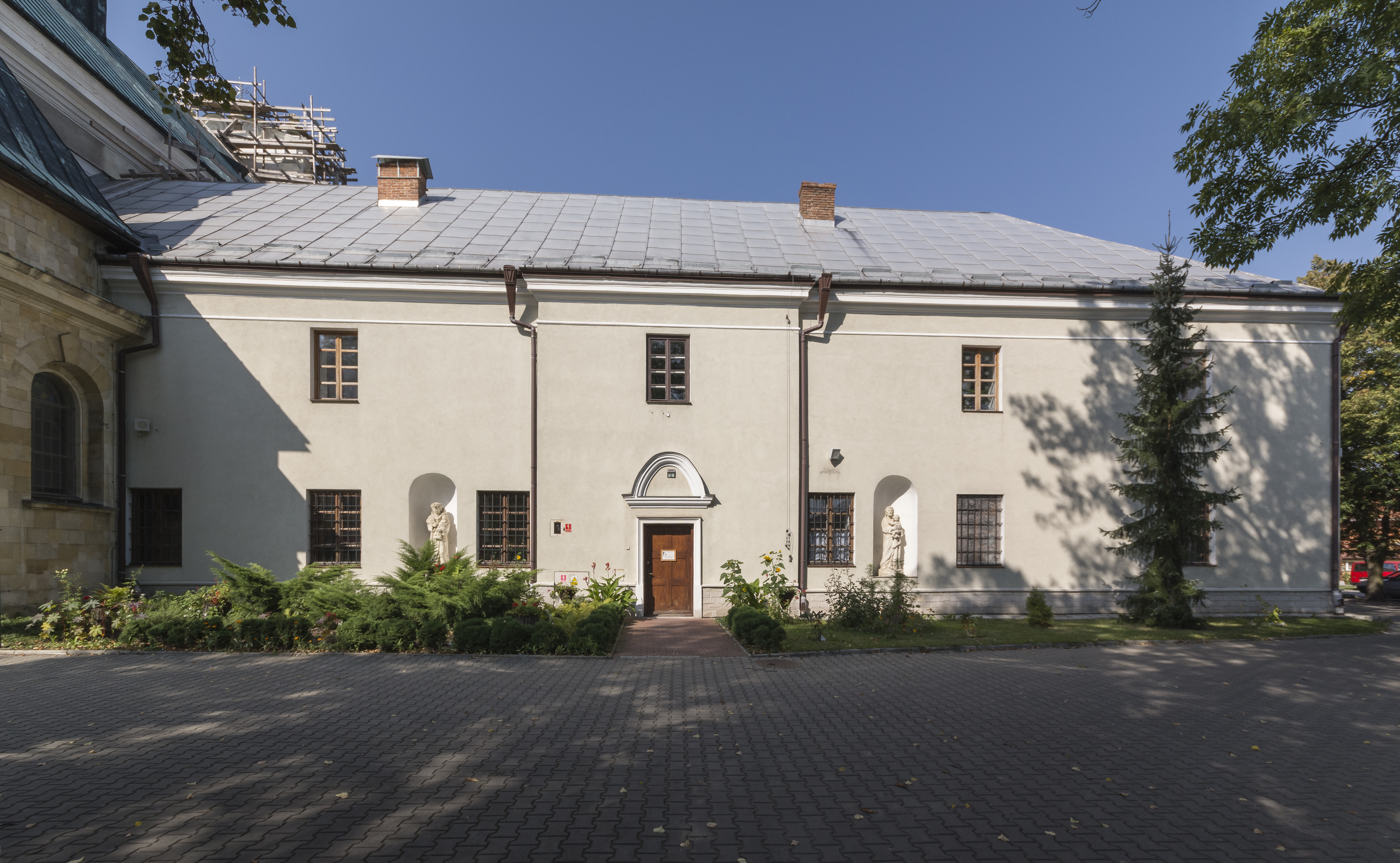 Dominican monastery in Tarnobrzeg